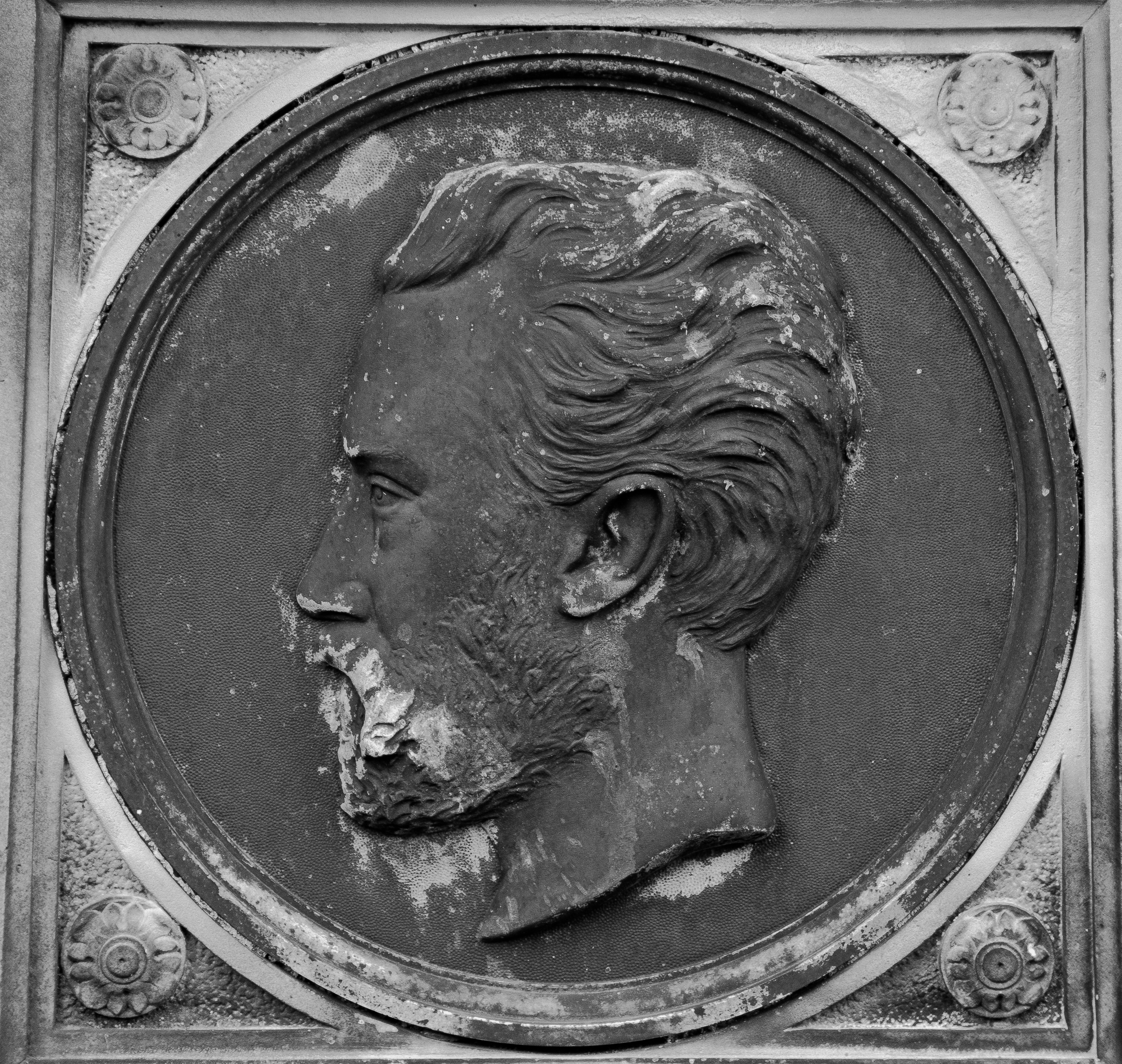 Heinrich Moldenschardt